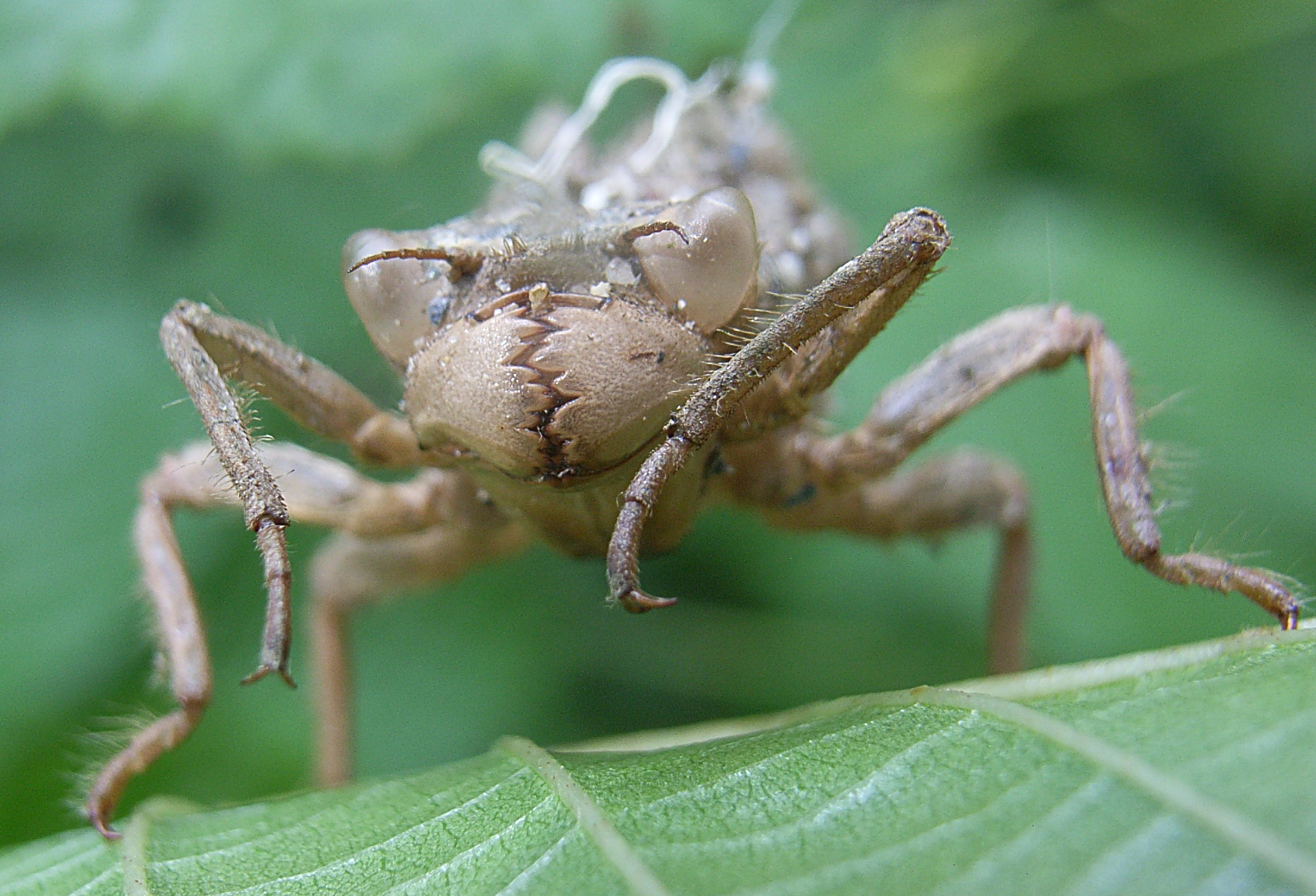 Exuvia of dragonfly Cordulegaster from France southwest of Millau at 2011-06-28, frontal view